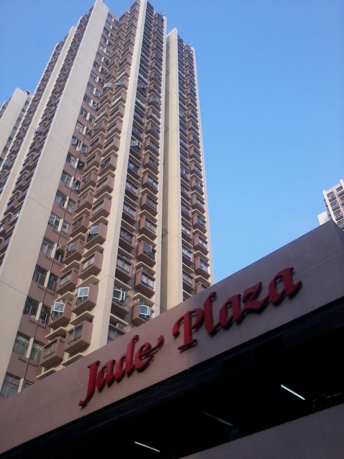 大埔 安祥路, On Cheung Road, Tai Po, Hong Kong